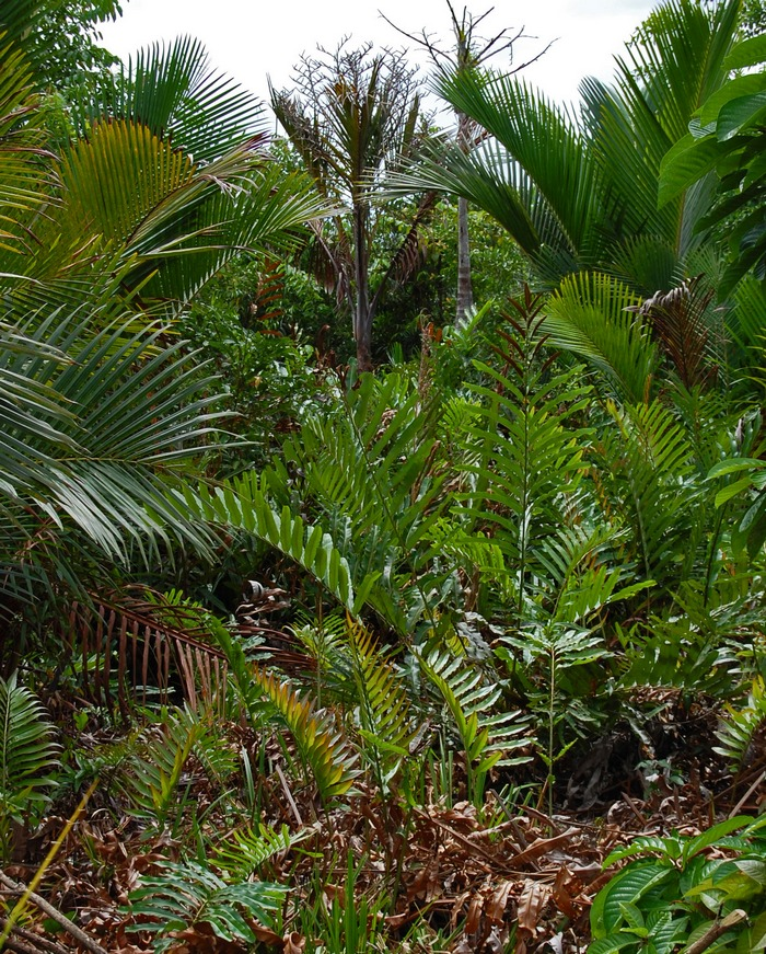 Mangrove fern, Acrostichum aureum, among Metroxylon sagu stand. From Labuan Bakti, Simeulue, Indonesia.